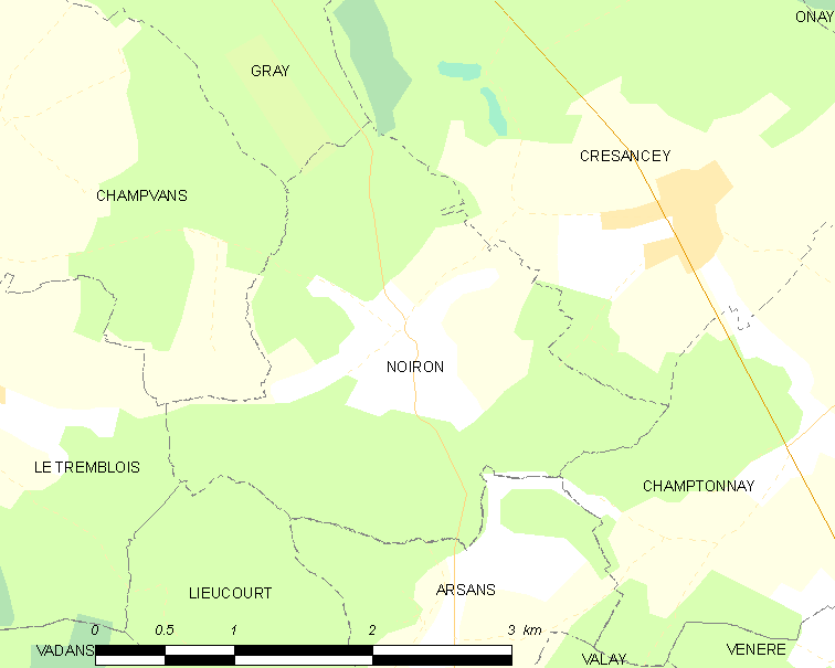 Map of French municipality